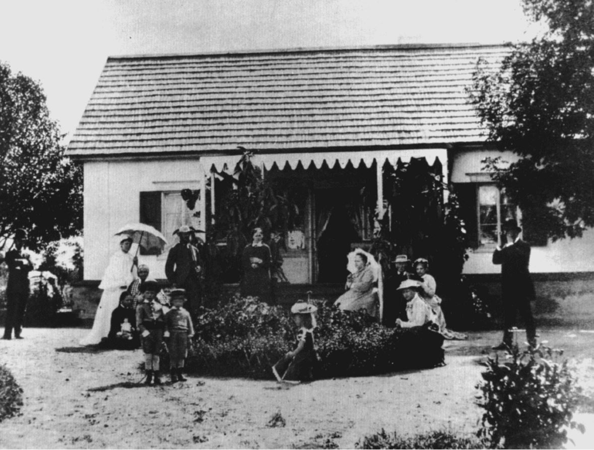 Tchaikovsky (standing far right, with binoculars) with his father and the Davydov family at Kamenka, July or August 1875.